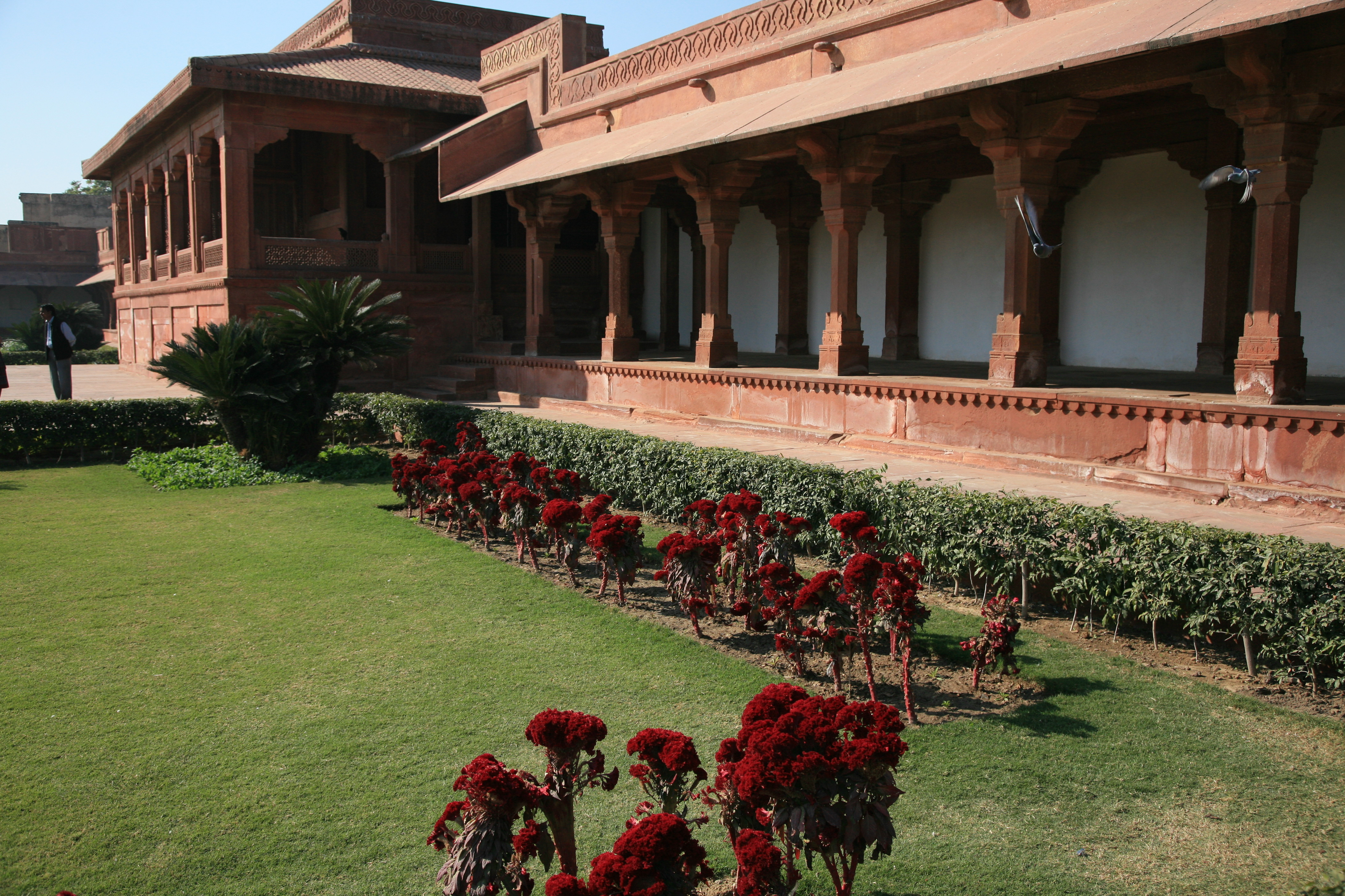 The Diwan-i-Am (the public audience hall) in Fatehpur Sikri.